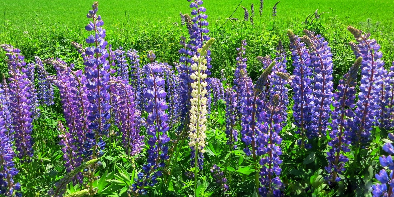 Lupinus polyphyllus inflorescences. Nowadays, this alien species is very usual on roadsides of Southern Finland.